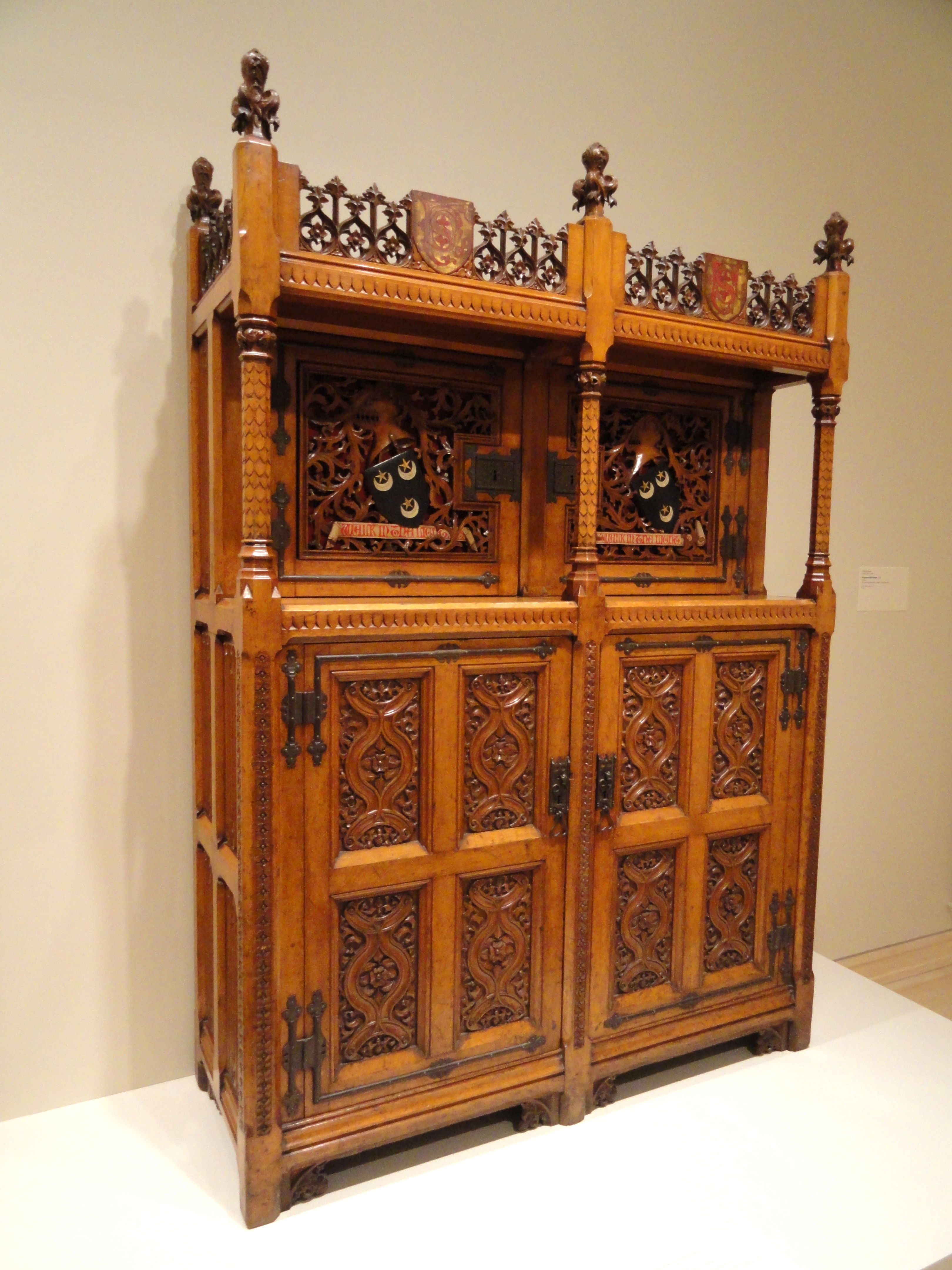 Cabinet by Augustus Welby Northmore Pugin, circa 1847. Exhibit in the Indianapolis Museum of Art, Indianapolis, Indiana, USA.